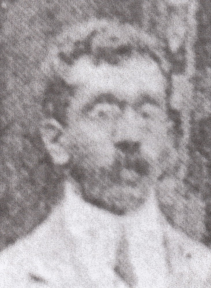 Photograph of Ceylonese physician,independence activist and brother of Anagarika Dharmapala - Dr.Charles Alwis Hewavitharana.